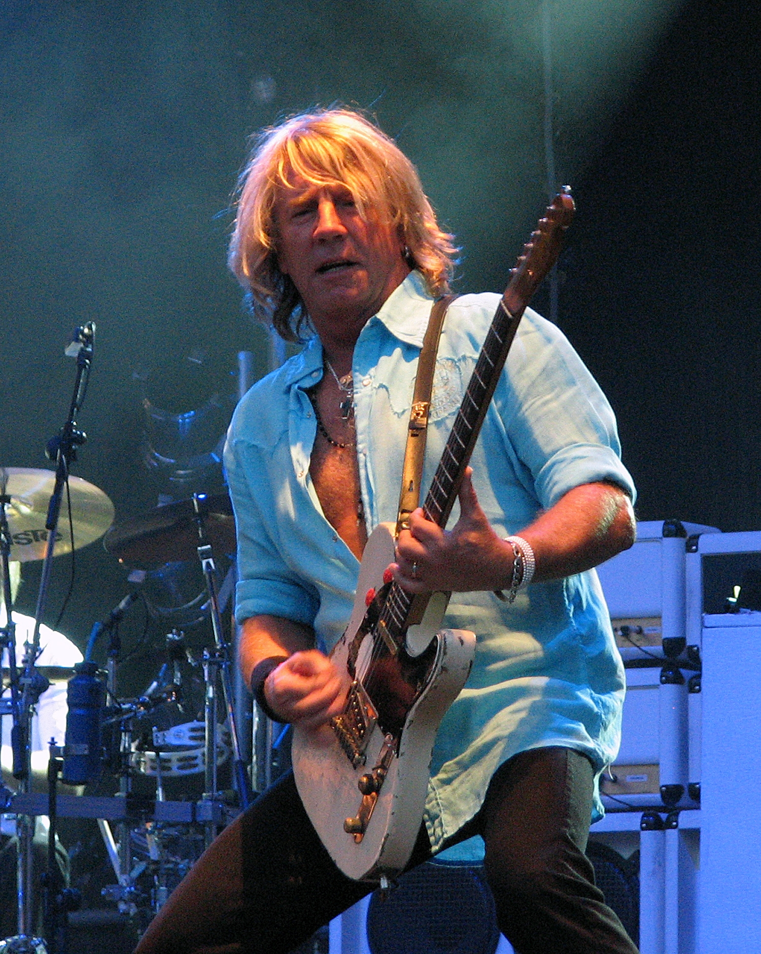 Rick Parfitt in Brunnsparken, Örebro, Sweden